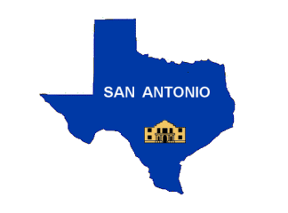 Flag.